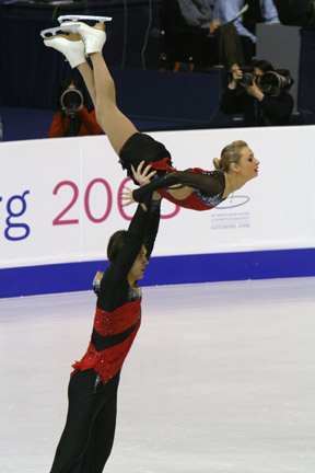 Maria MUKHORTOVA and Maxim TRANKOV. European Championships 2008